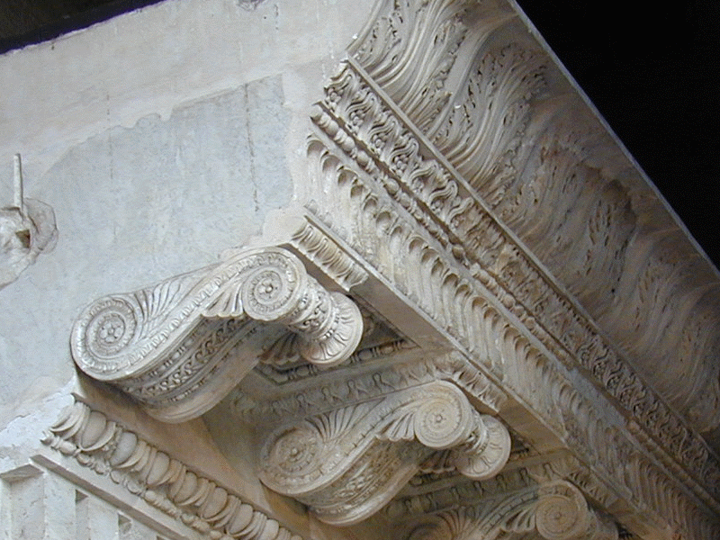 Entablature of the Temple of Vespasian in the Roman Forum, reconstructed with original fragments in the Tabularium in Rome (Capitoline Museums). Photo by Lalupa.